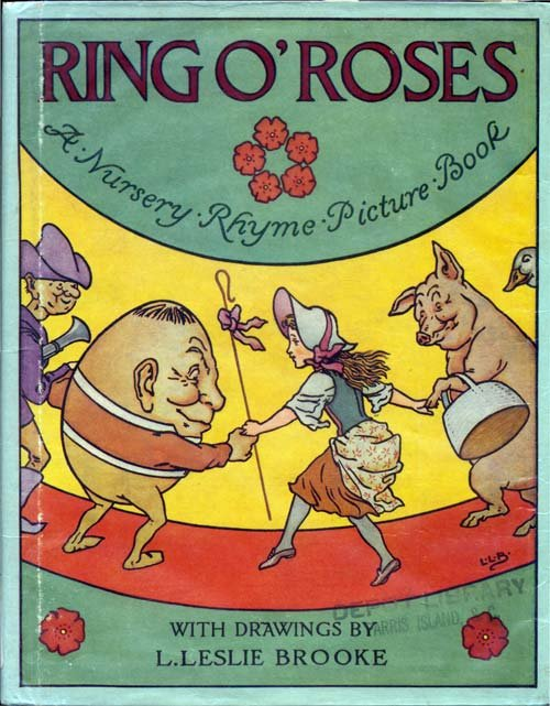 Cover of a collection of children's rhymes, Ring O' Roses by L. Leslie Brooke (1922)